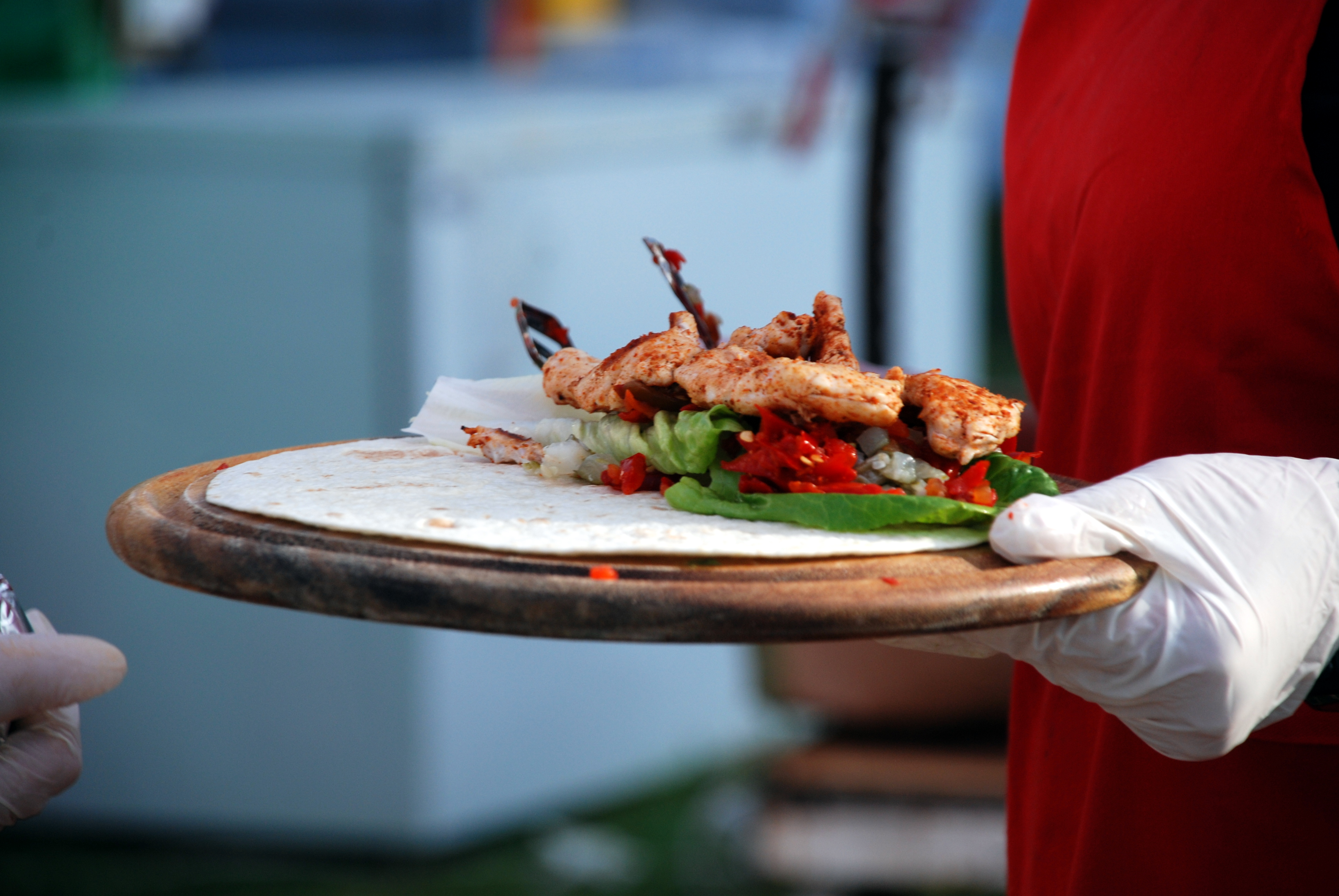 Cities in Israel